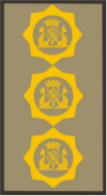 Municipal Guard Regional Inspector Insignia, Rio de Janeiro Municipal Guard